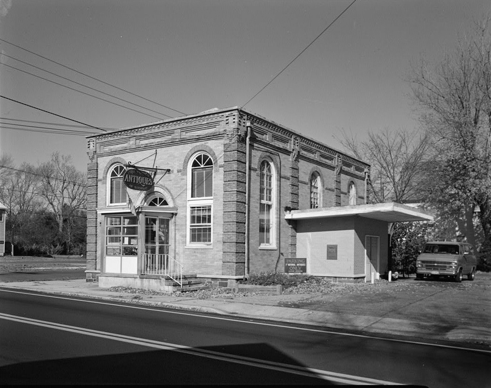 Smaller version of our file PERSPECTIVE VIEW LOOKING NORTHWEST - First National Bank of Barnegat, 708 West Bay Avenue, Barnegat, Ocean County, NJ HABS NJ,15-BAR,4-1.tif, black edges cropped